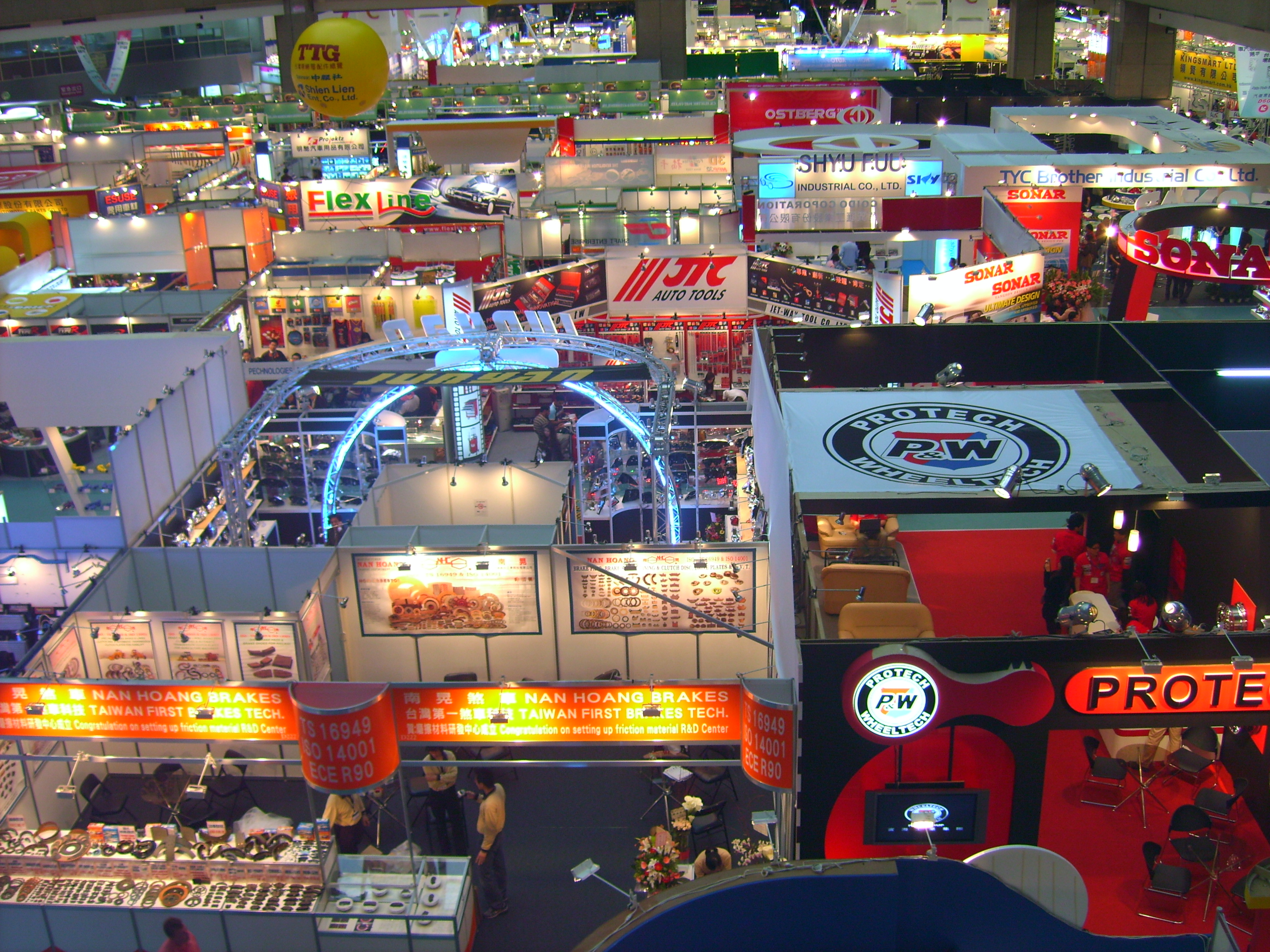 Taipei AMPA exhibited in the Taipei World Trade Center last time at 2007, and this show will take place in the Taipei World Trade Center Nangang Exhibition Hall for more exhibition spaces from 2008.